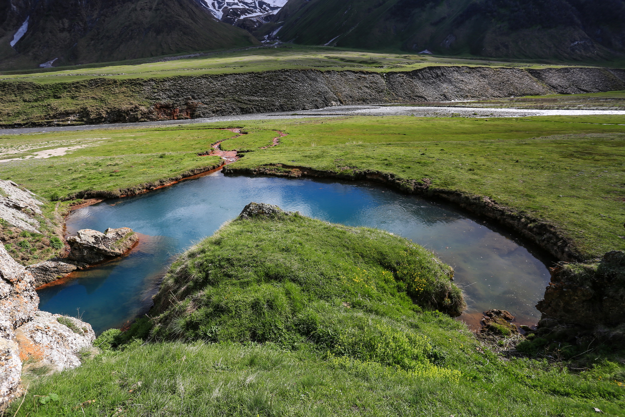 Attraction: it is a small lake created by the carbon dioxide filled upward stream flowing to the surface from carbonate rocks of Upper Jurassic period. The lake "boils" loudly from carbon dioxide bubbles. The debit of the stream is 2.5 liters per 24 hours. The total surface area of the lake is 0.04 ha. The extraction of gas in not so windy weather causes carbon dioxide to accumulate in lower layers. Small animals suffocate when they get near the lake, which is why you may come across dead animals, such as: mice, lizards, frogs and some birds. Location: Kazbegi Municipality, Truso Gorge, left bank of River Terek, to the east from Village Abano, at an altitude of 2,127 m above sea level. Coordinates: X: 452581 Y: 4715247 How to get there: the nearest populated areas are villages Keterisi and Abano (where locals stay only seasonally), and village Kobi is situated little farther, which is 136 km away from Tbilisi. Travel to Kobi from Tbilisi will take 2 hrs and 10 min. Village Kobi – Abano Lake Natural Monument – 18.6 km dirt road. Length of the trip – 1 hour and Stepantsminda Borough – Abano Lake Natural Monument – 35 km, from which 17 km is a paved road and 18 km – dirt road. Length of the trip – 2 hours; Village Keterisi – Natural Monument – 2.8 km, you must use the detour pedestrian/horse road on Terek River. Length of the trip – 30 min.